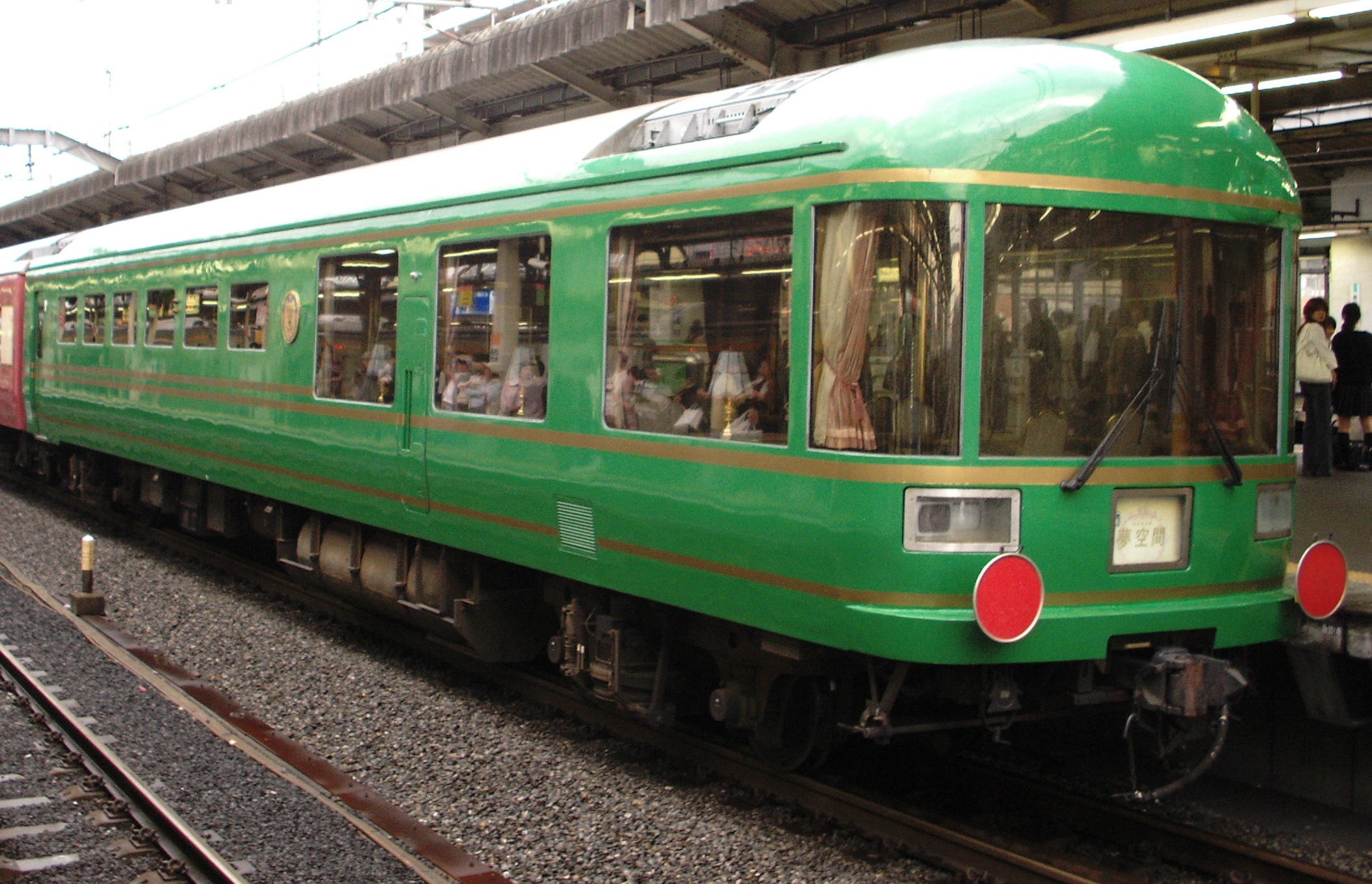 Yume Kūkan dining car OShi 25 901 at Akabane Station